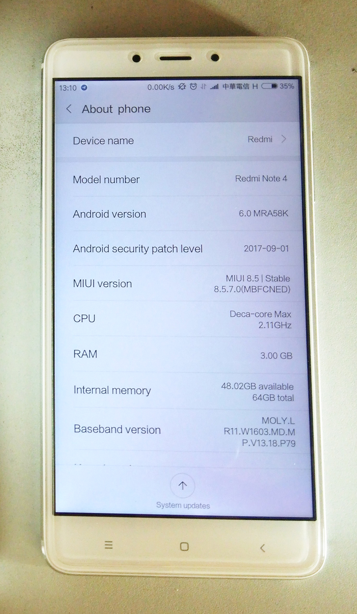 Xiaomi Redmi Note 4 silver front and its pack box.